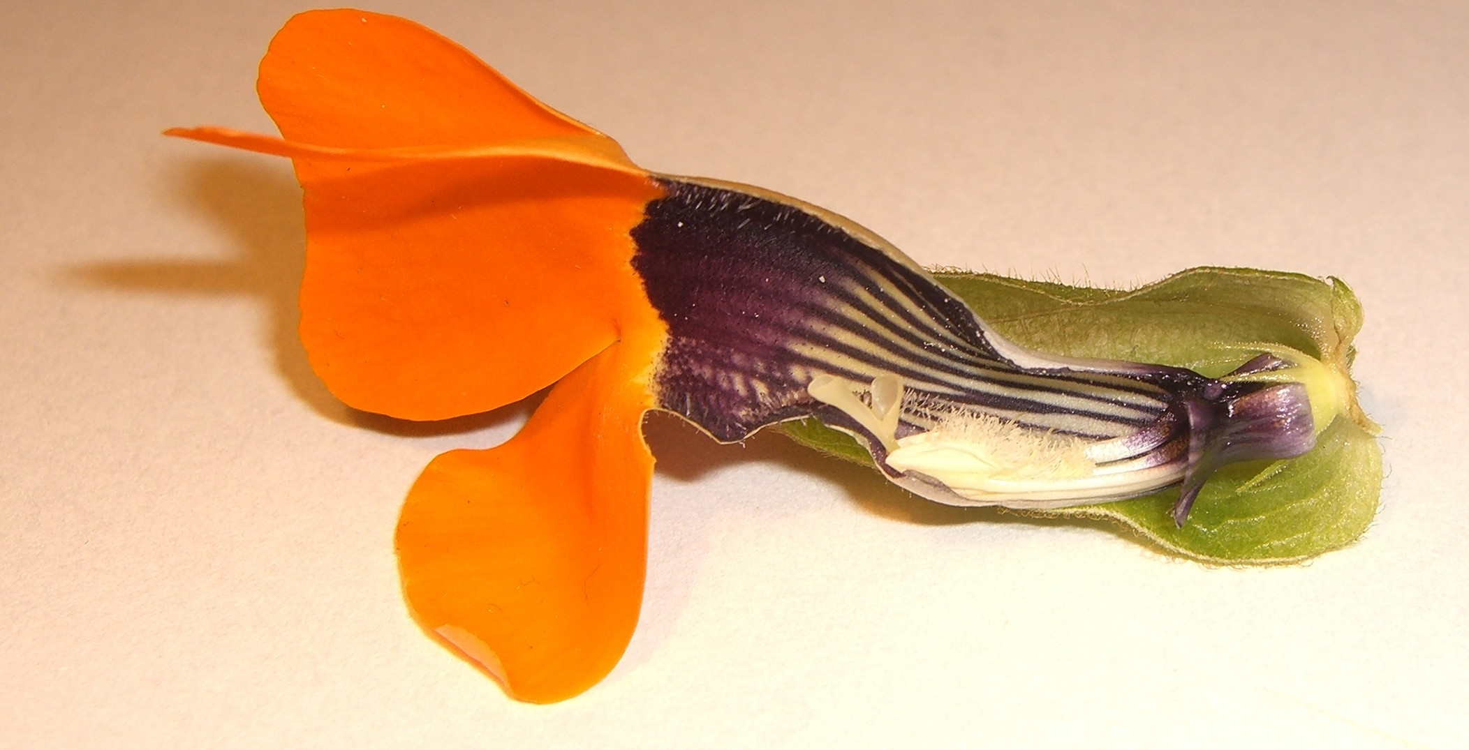 Description: Detail of the blossom of Thunbergia alata